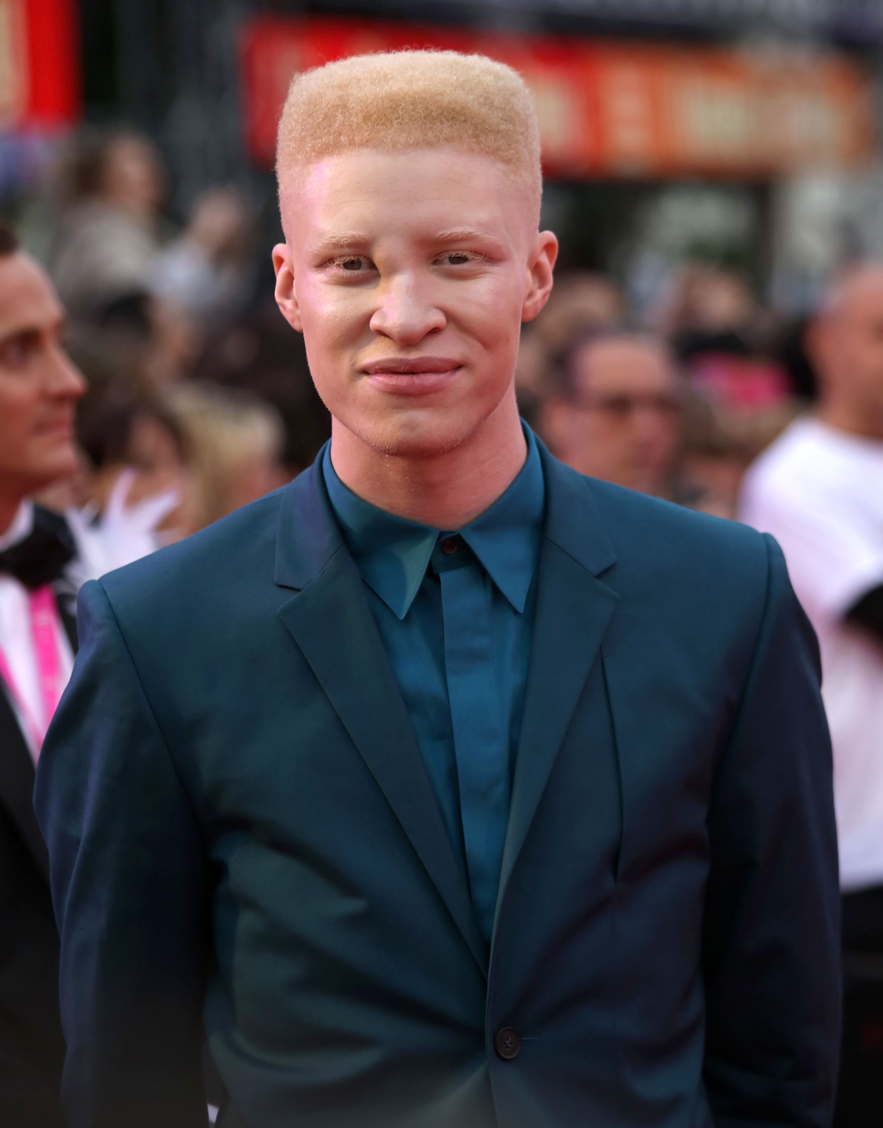 Life Ball 2014, Shaun Ross on the red carpet on the square in front of the Rathaus (Town Hall) of Vienna, Austria.